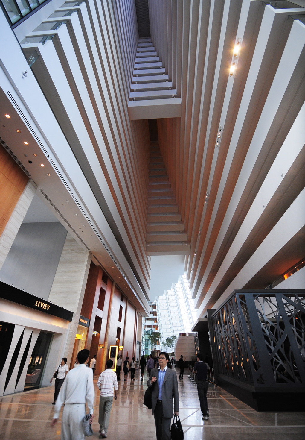 It's open! Marina Bay Sands will blow your mind away!